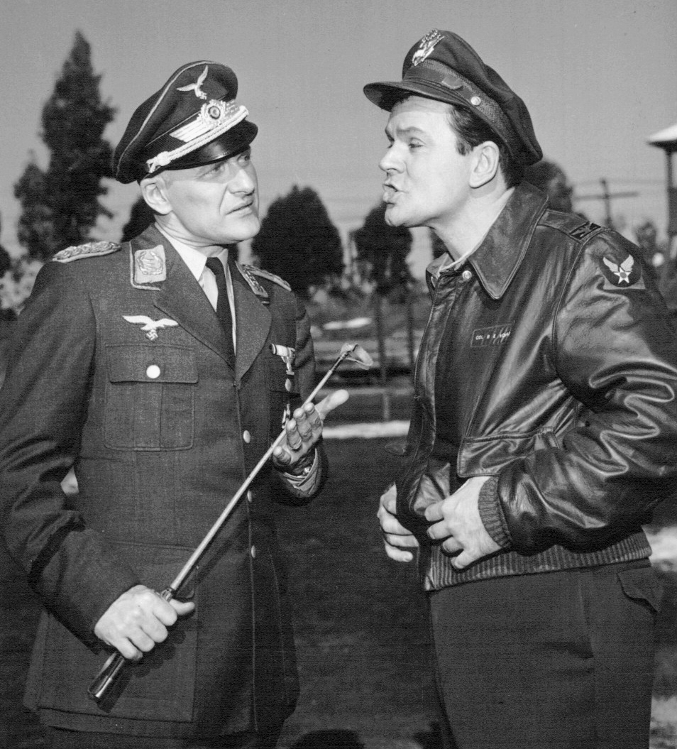 Photo of Werner Klemperer as Colonel Klink and Bob Crane as Colonel Hogan from Hogan's Heroes.